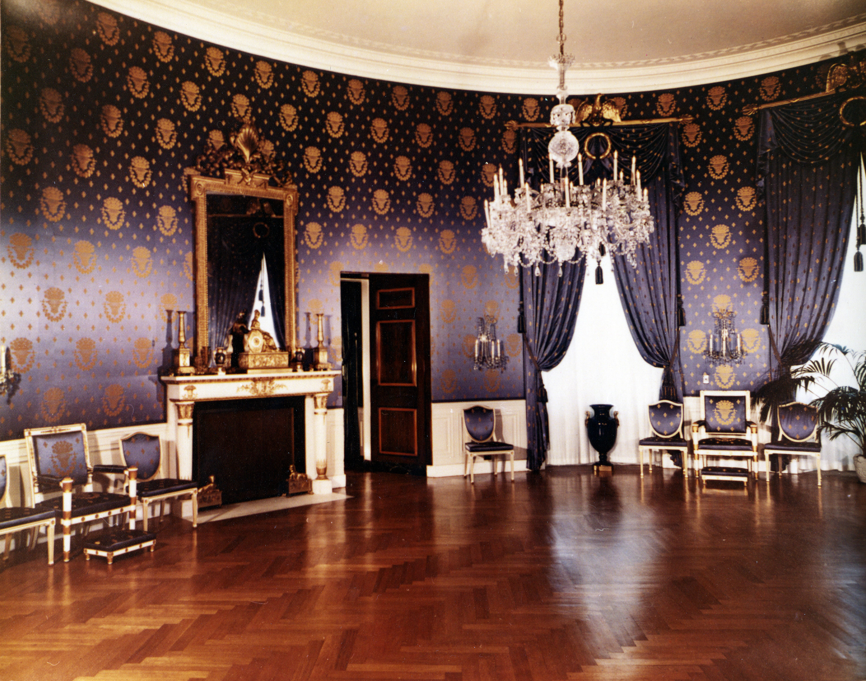 General notes: The Blue Room after renovations at the White House were completed.